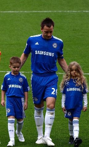 Chelsea's captain John Terry with mascots.